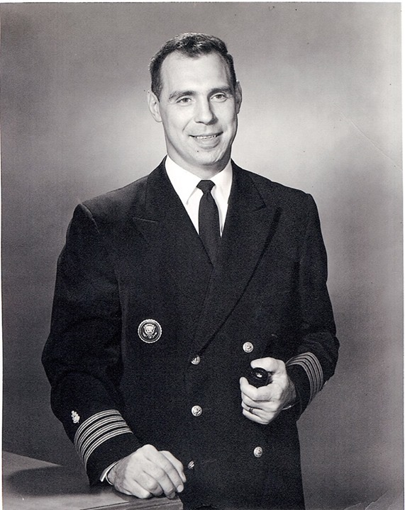 Portrait of former US Navy Captain James Morningstar Young, M.D. He was the White House physician to Presidents John F. Kennedy and Lyndon B. Johnson